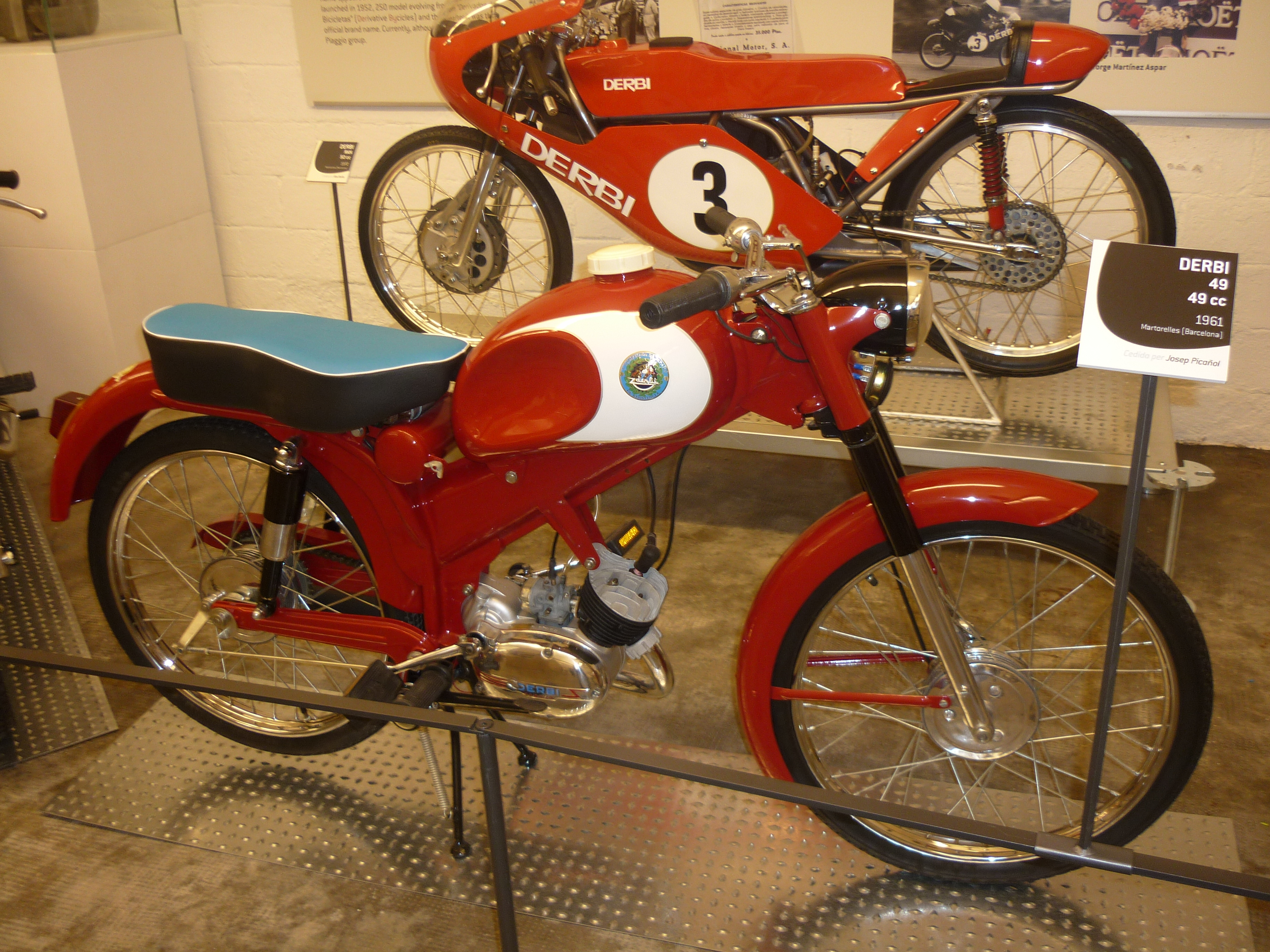 Derbi 49 49cc (1961). Behind: Derbi RAN 50cc 1972. Museu de la Moto de Barcelona (Catalonia).